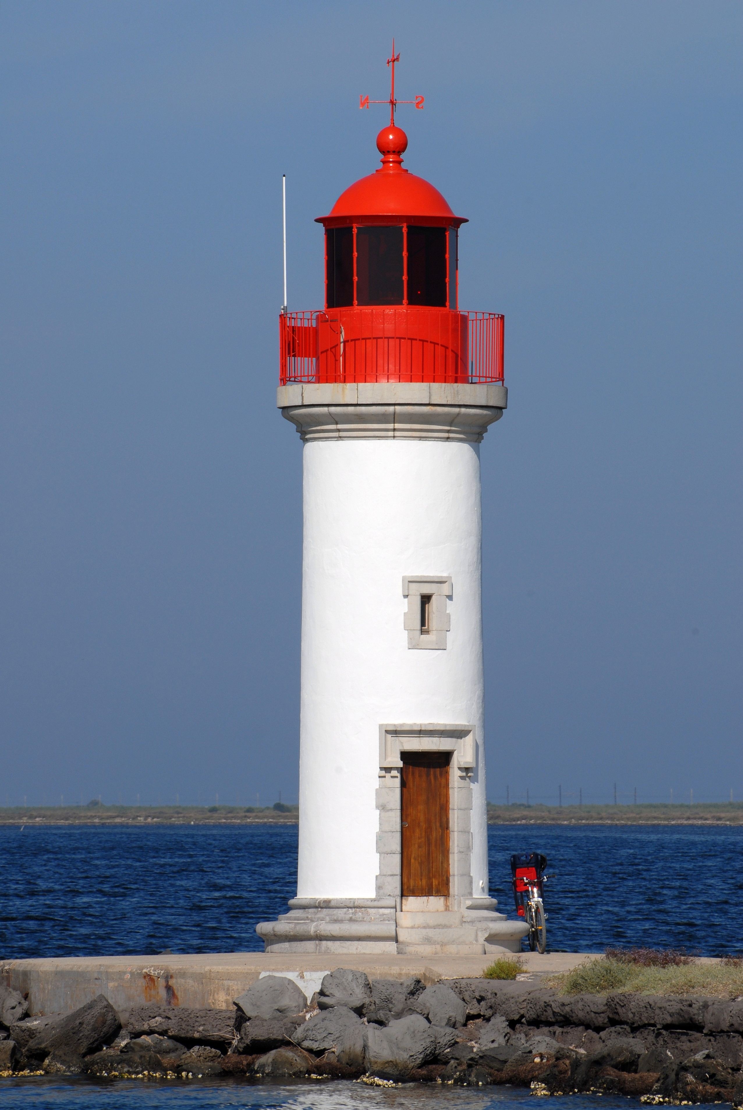 Lighthouse Onglous at mouth of Canal du Midi into Étang de Thau